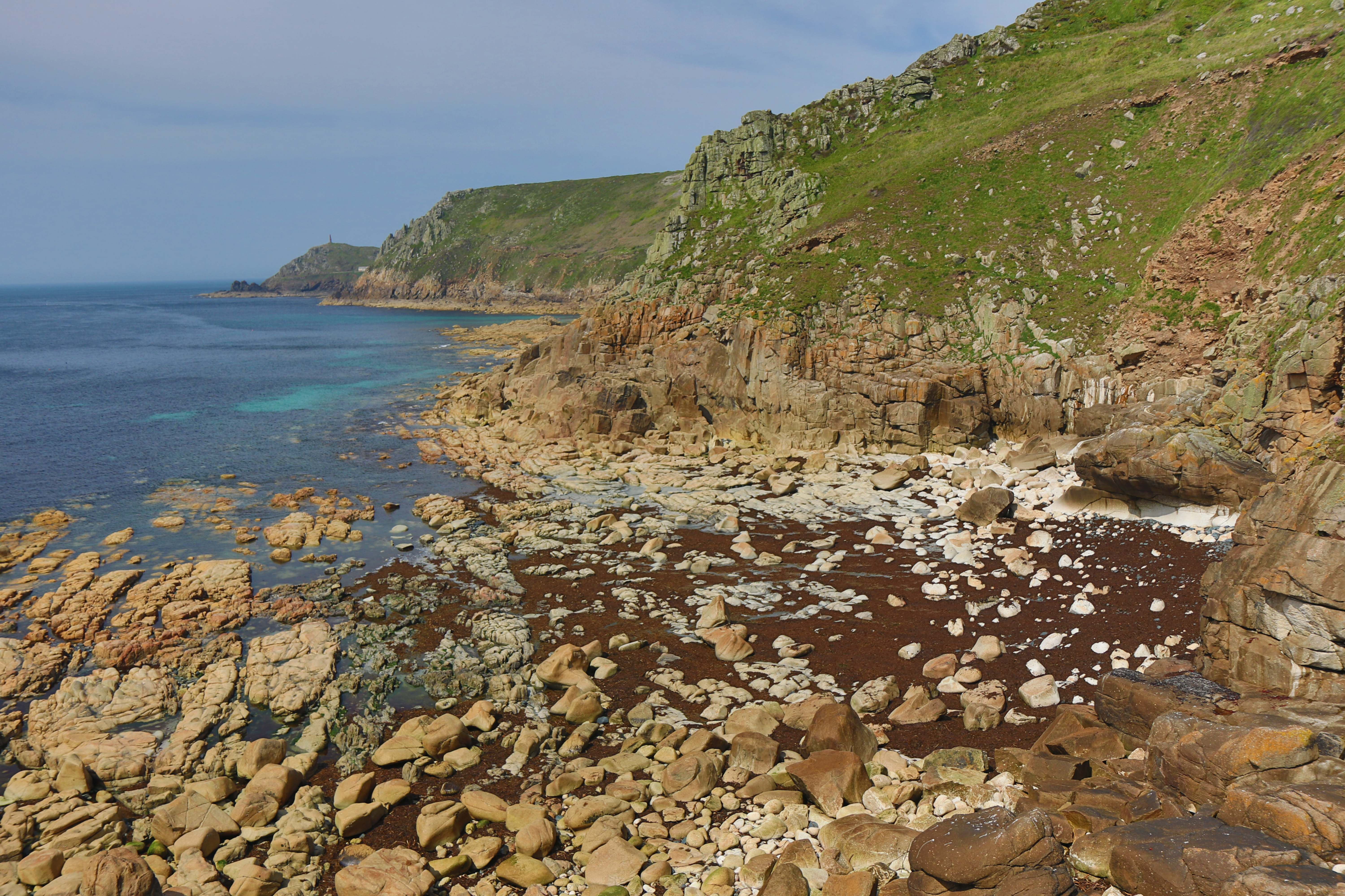 Cape Cornwall from Porth Nanven This photo was taken by Tom Corser and is © Tom Corser 2020. This photo may be reproduced at up to 1024 x 768 pixels resolution under the terms of the Creative Commons Attribution-ShareAlike 3.0 Unported Licence [1] (unless otherwise stated). Please credit this photo Tom Corser If using this photo, make sure you properly credit and specify the licence that this photo is licensed under. (E.g. "Photo by Tom Corser Licensed under Creative Commons Attribution-ShareAlike 3.0 Unported Licence: If you would like to use this photo under a different license, or at a higher resolution please contact me via or . Attribution: Tom Corser